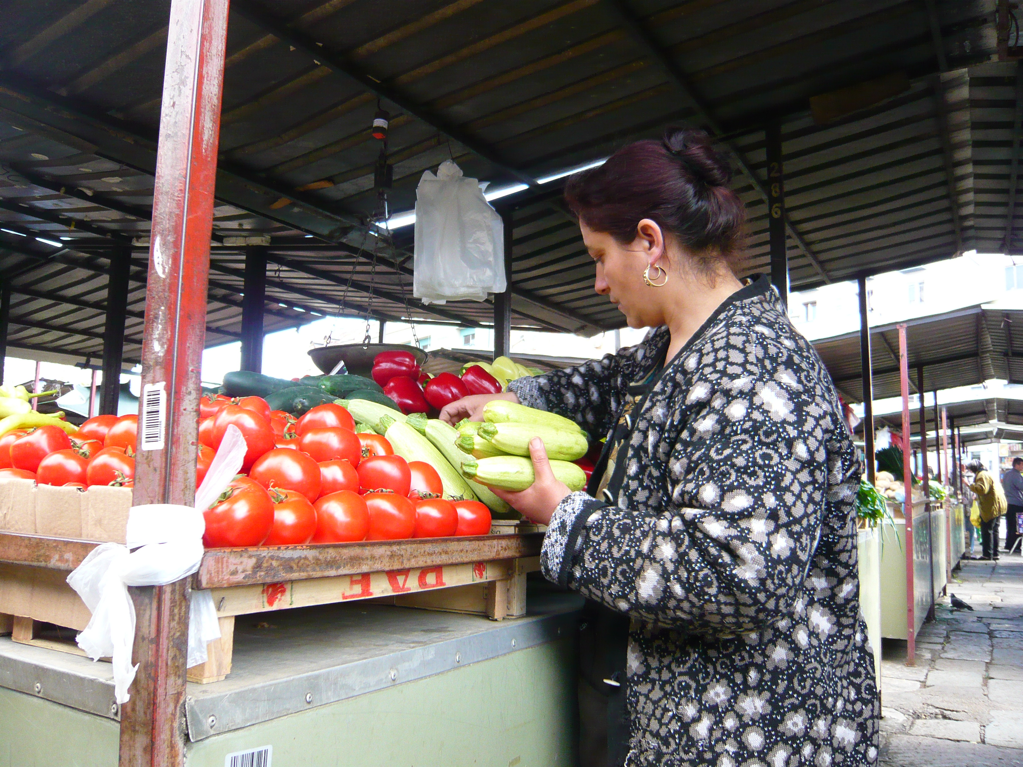 An ordinary day at the Kalenić market in Belgrade